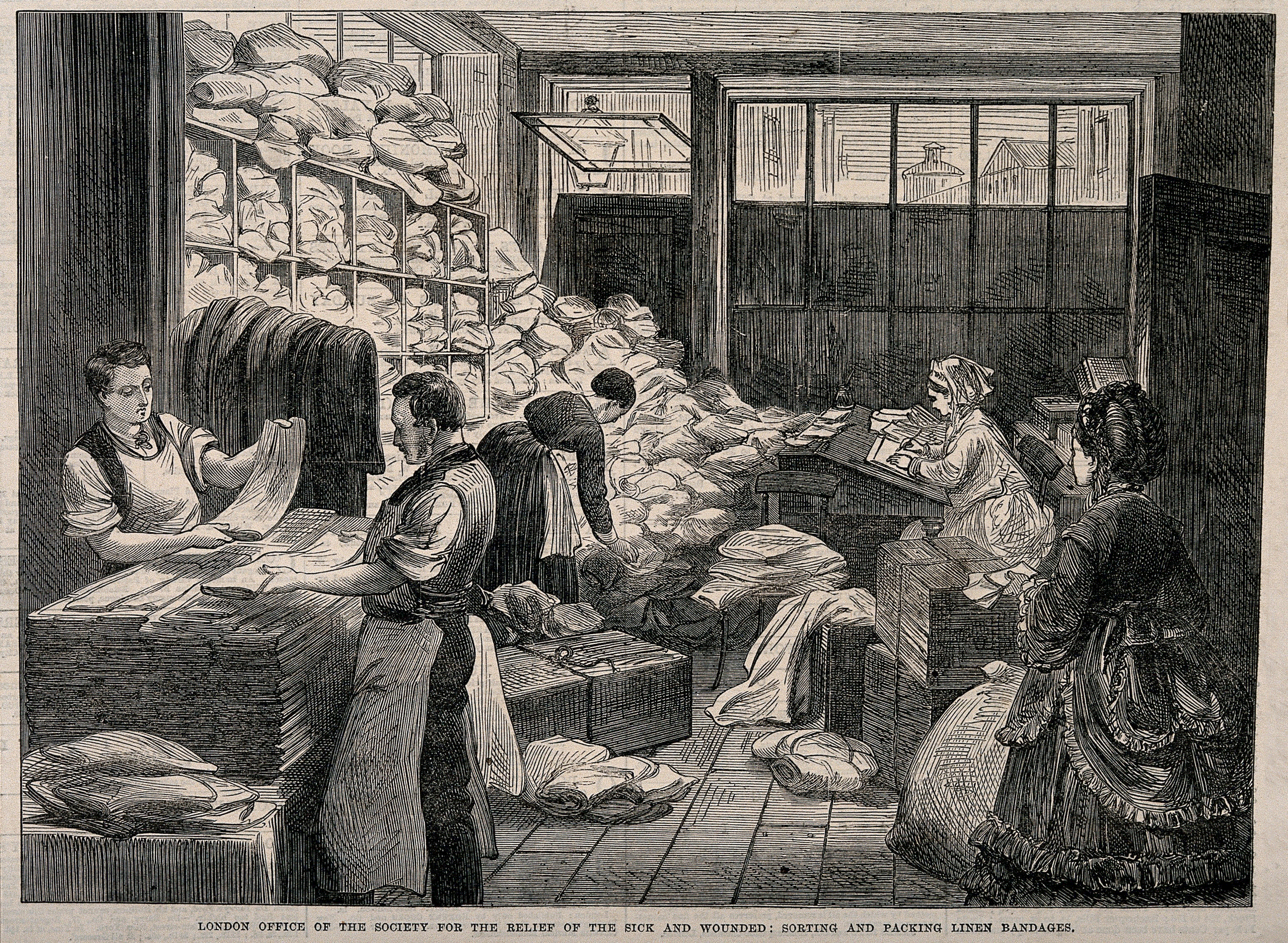 Sorting and packing linen bandages, London office of the Society for the relief of the sick and wounded